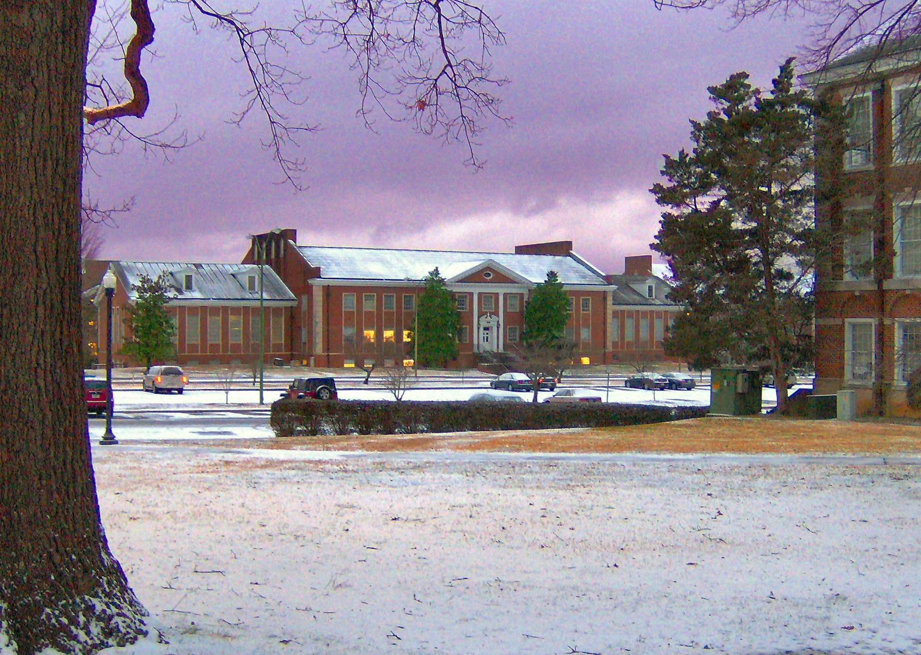 Clement Hall after the early January snowfall at Tennessee Tech University in Cookeville, Tennessee, USA.